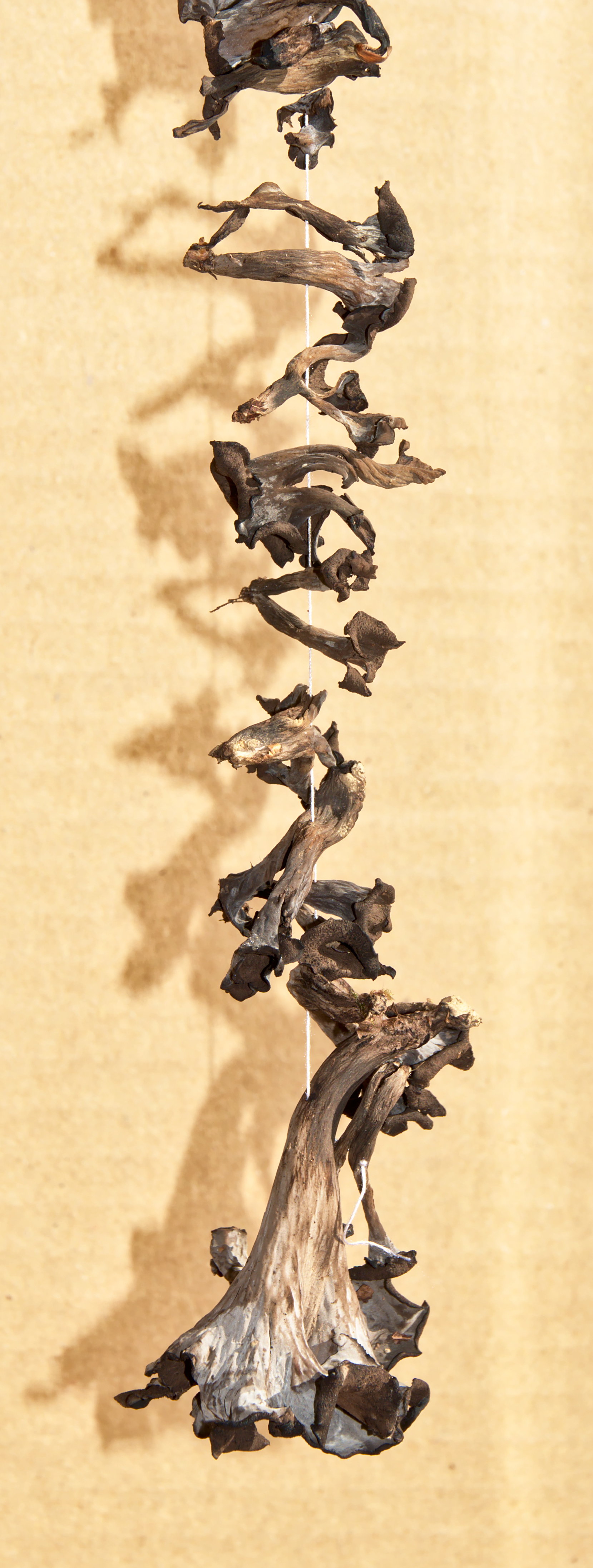 Trumpets of the dead drying on a string.